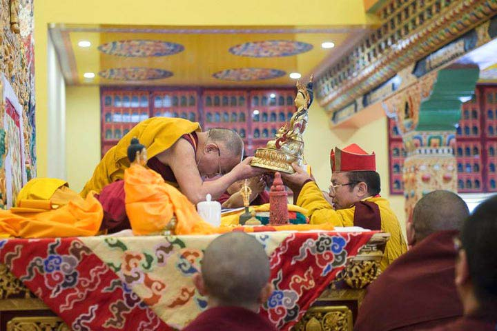 Historic visit of H. H. Dalai Lama in Palpung Sherab Ling, May 11 and 12, 2015. Chamgon Kenting Tai Situ Rinpoche offering a longlife empowerment to The Dalai Lama.